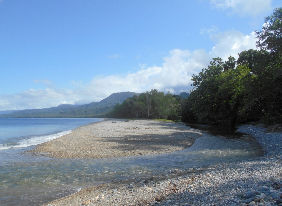 The south coast of Pentecost, where the Warbot River flows into the ocean.